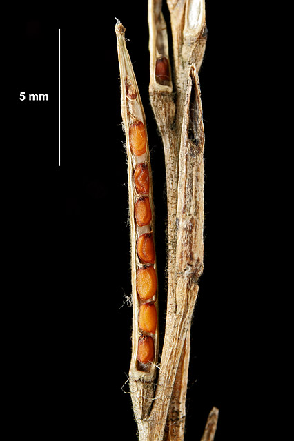 Sisymbrium officinale; habitus